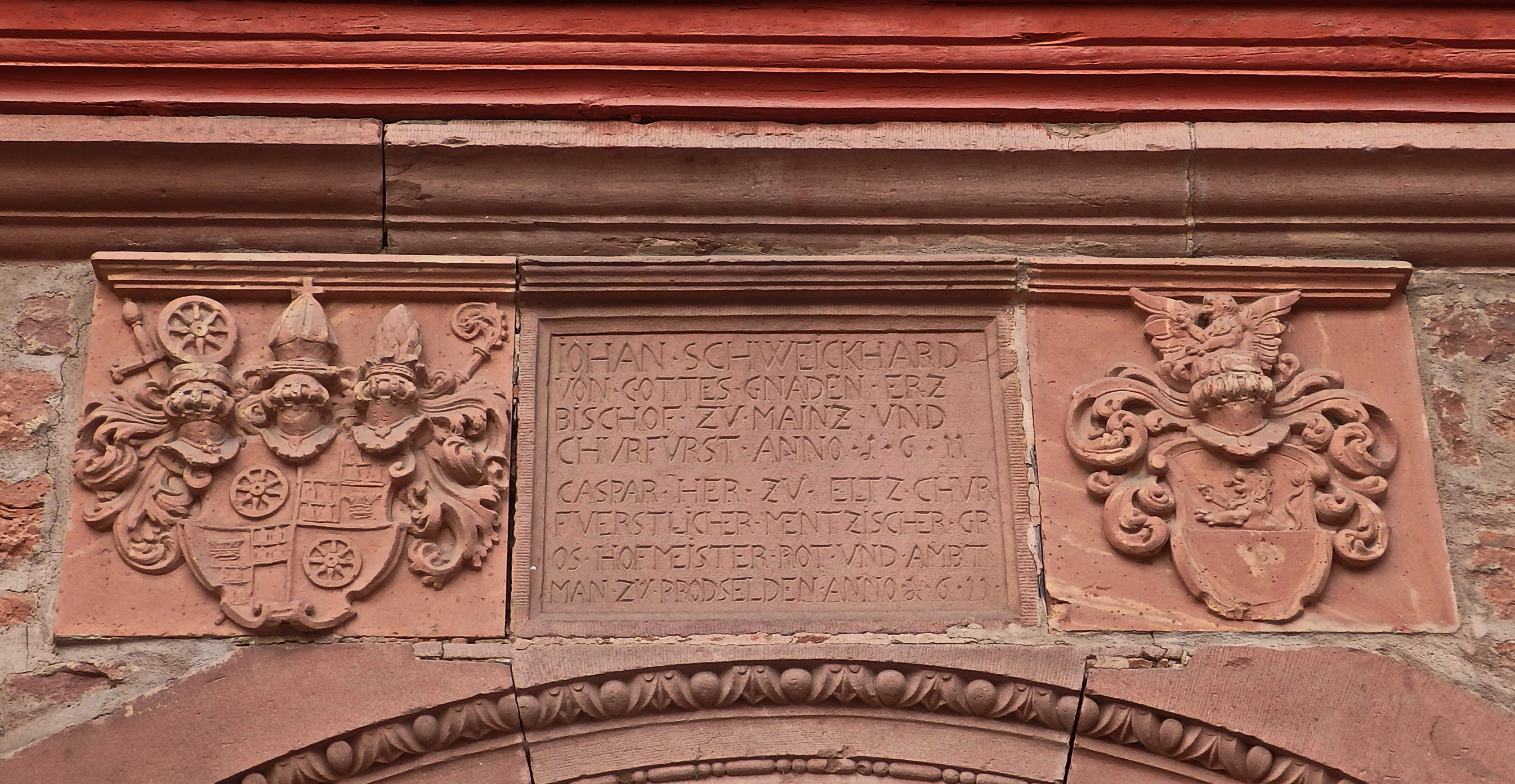 Großheubach Town hall Detail with arms